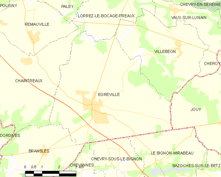 Map of French municipality Égreville